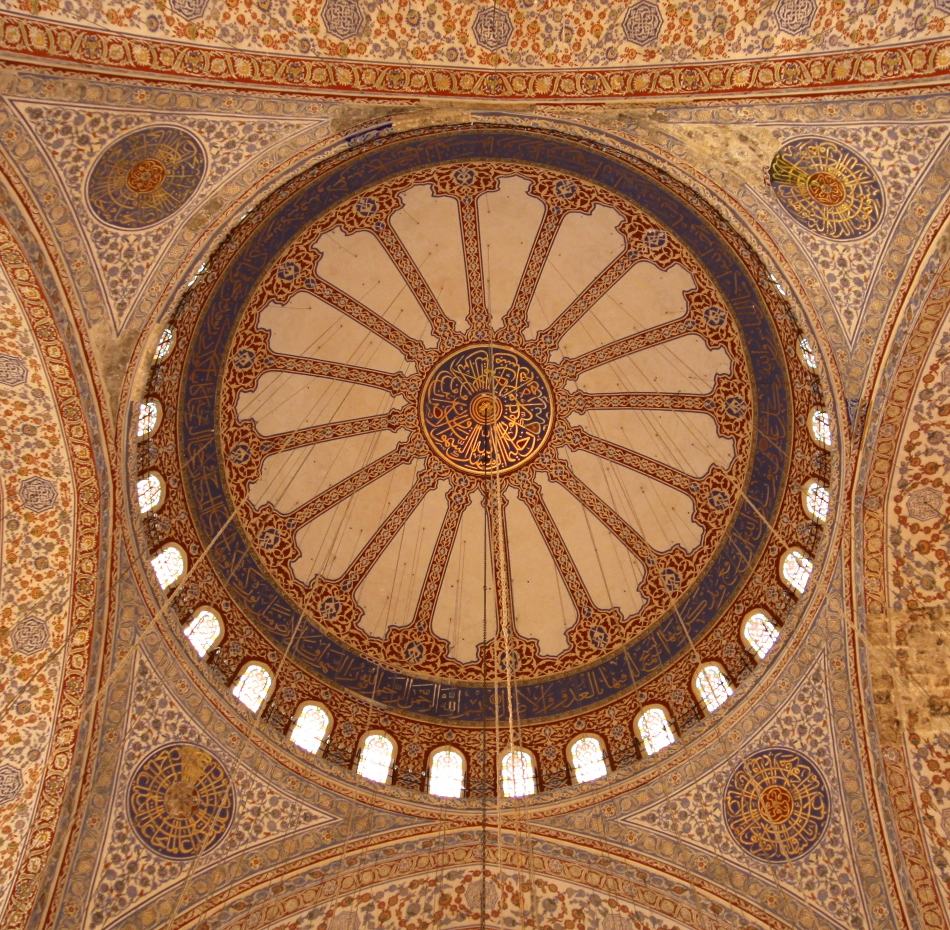 Interior of Sultan Ahmed I Mosque